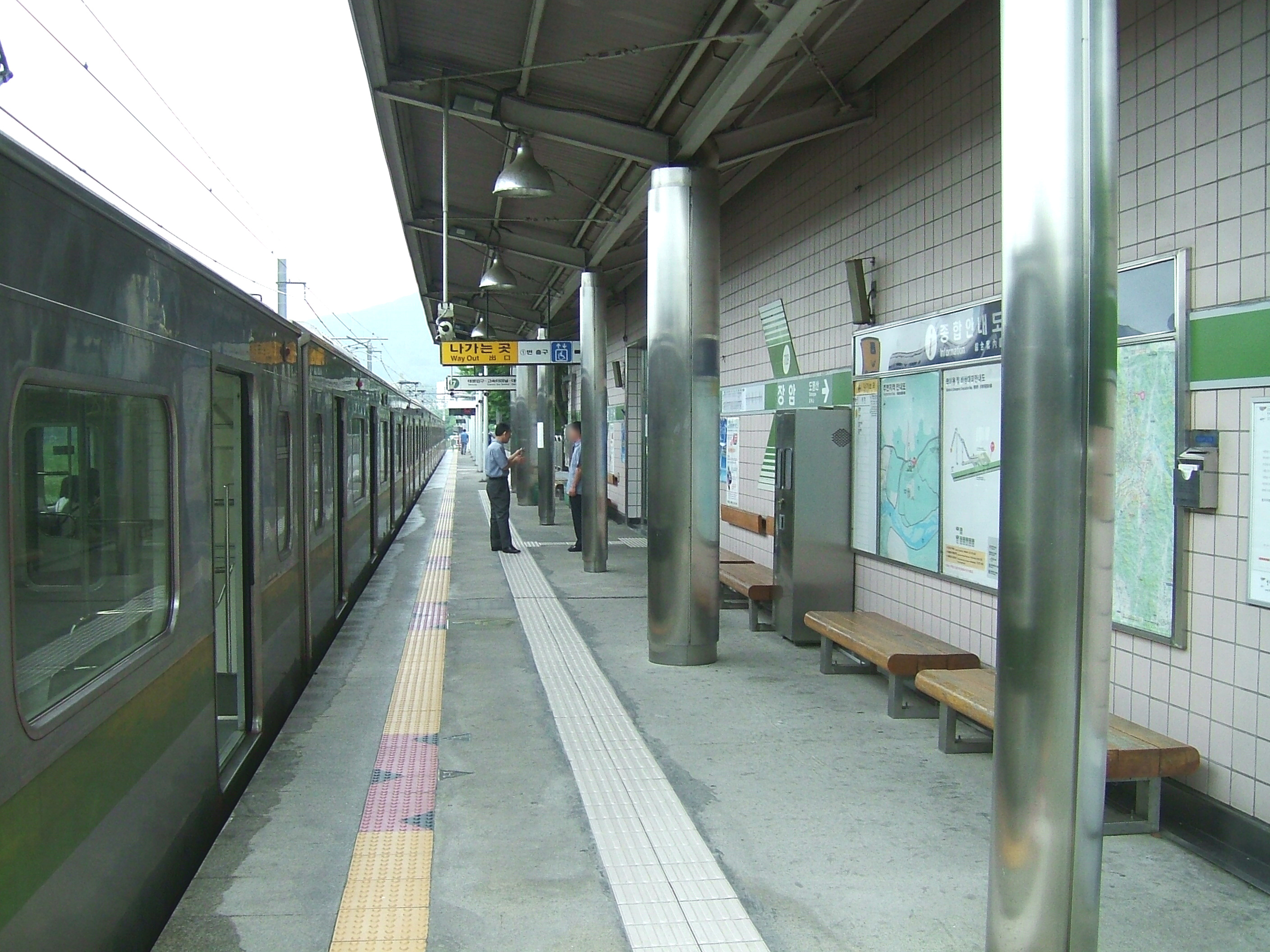 The platform at Jangam Station on Seoul Subway Line 7 in Uijeongbu city, Gyeonggi-do, Republic of Korea(South Korea)